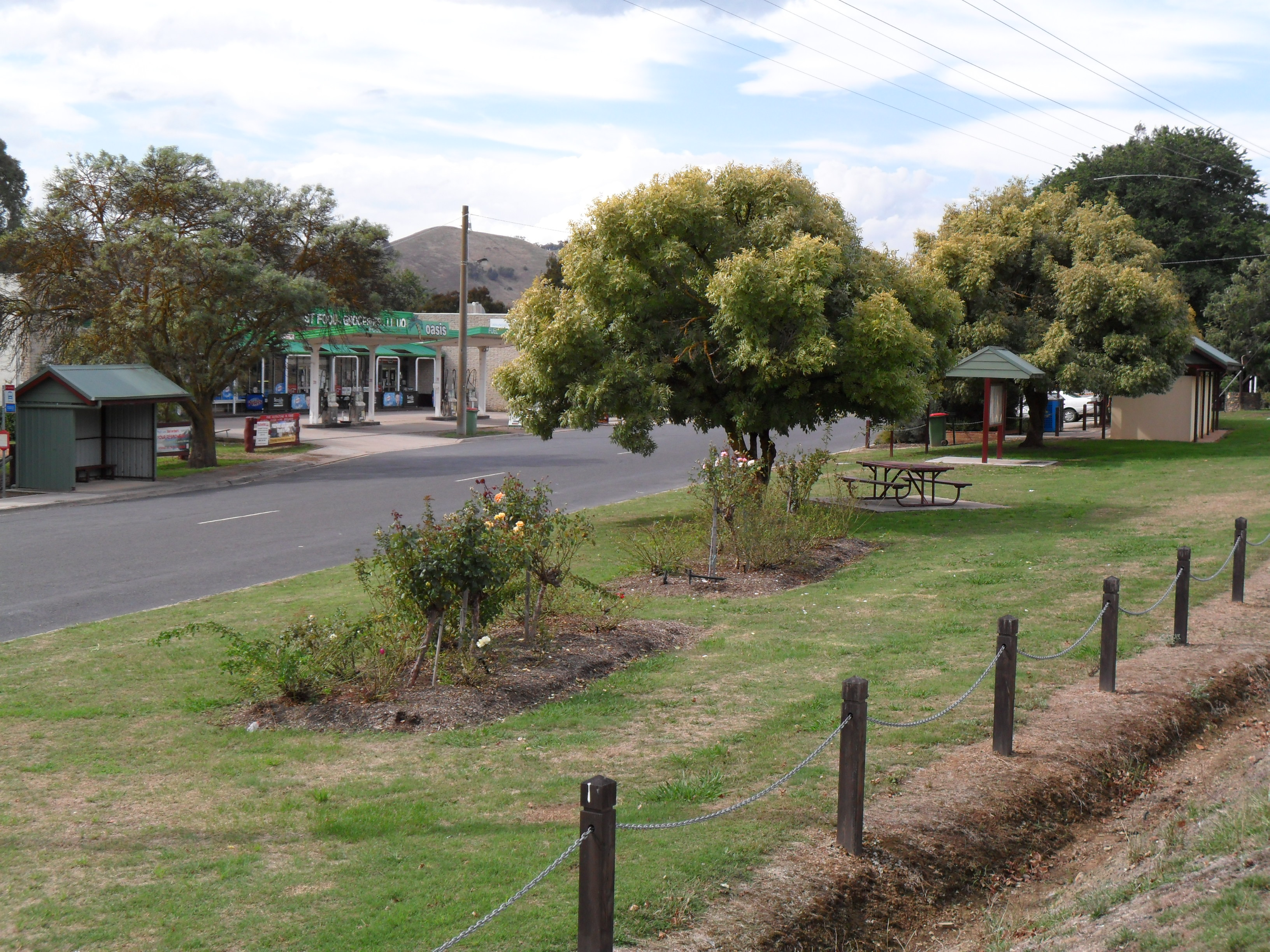 Bon Crescent, Bonnie Doon, Victoria